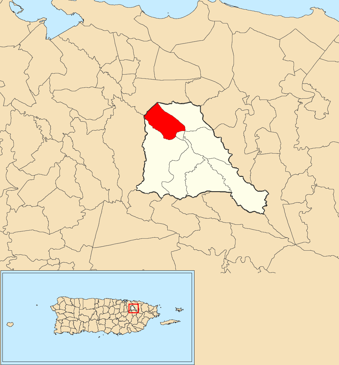 Cuevas, Trujillo Alto, Puerto Rico locator map